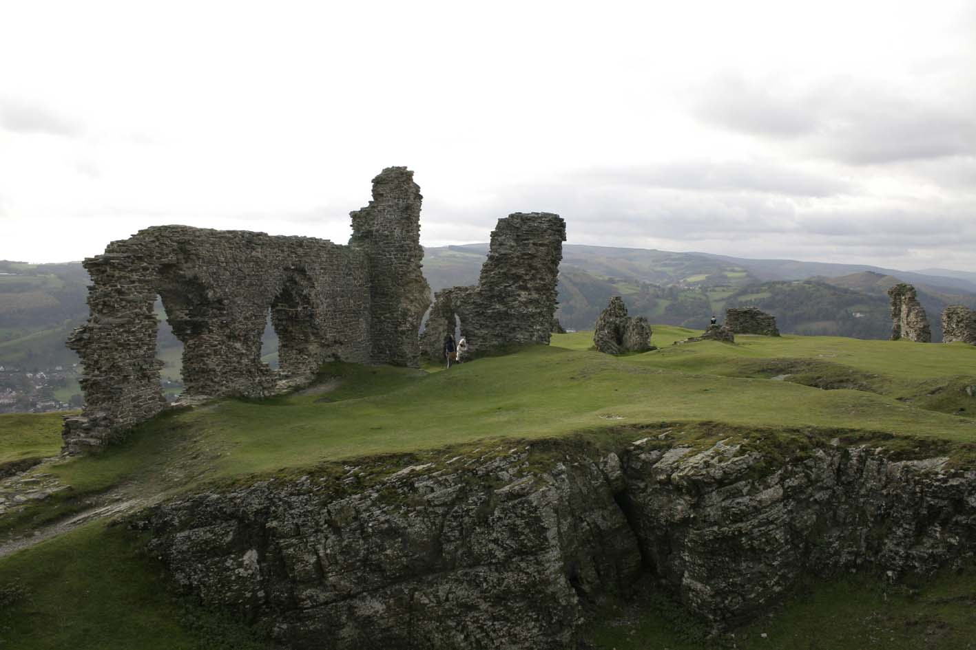 Source: Village of Llangollen in North Wales/UK, Castel Dinas Bran. Author: Colin Neville (Cynnydd)